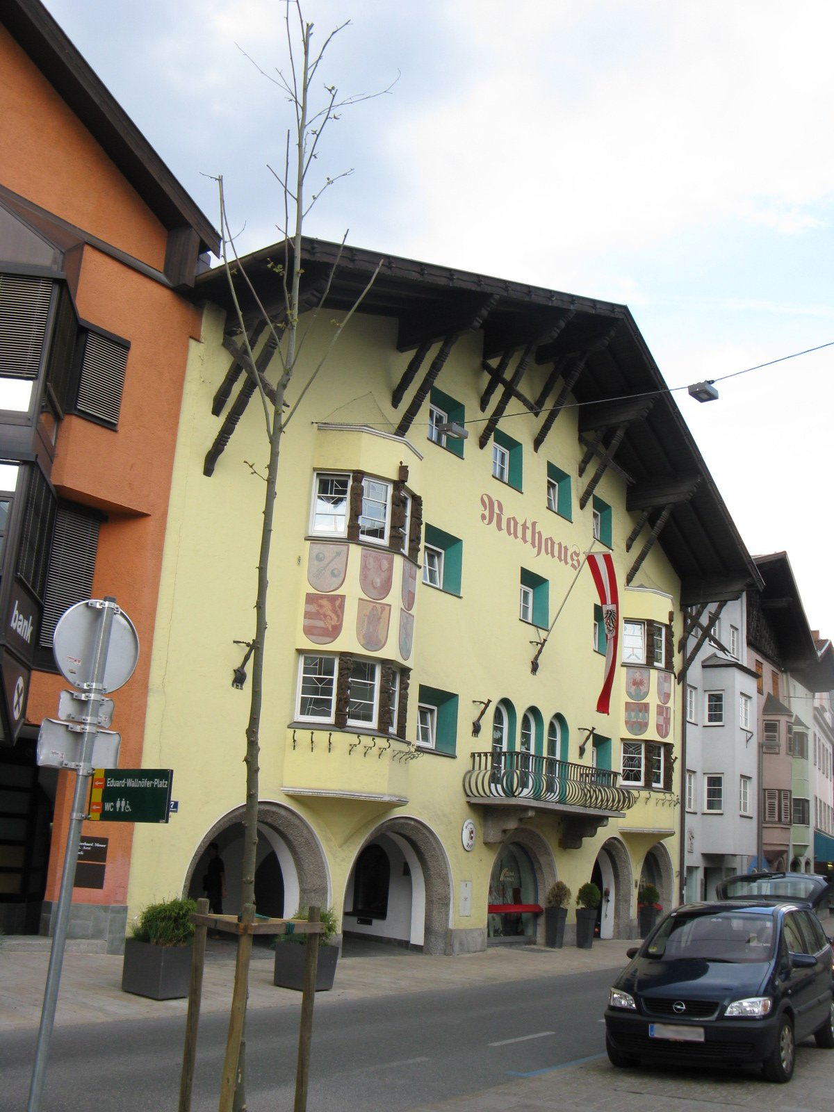 town hall of Telfs, Austria